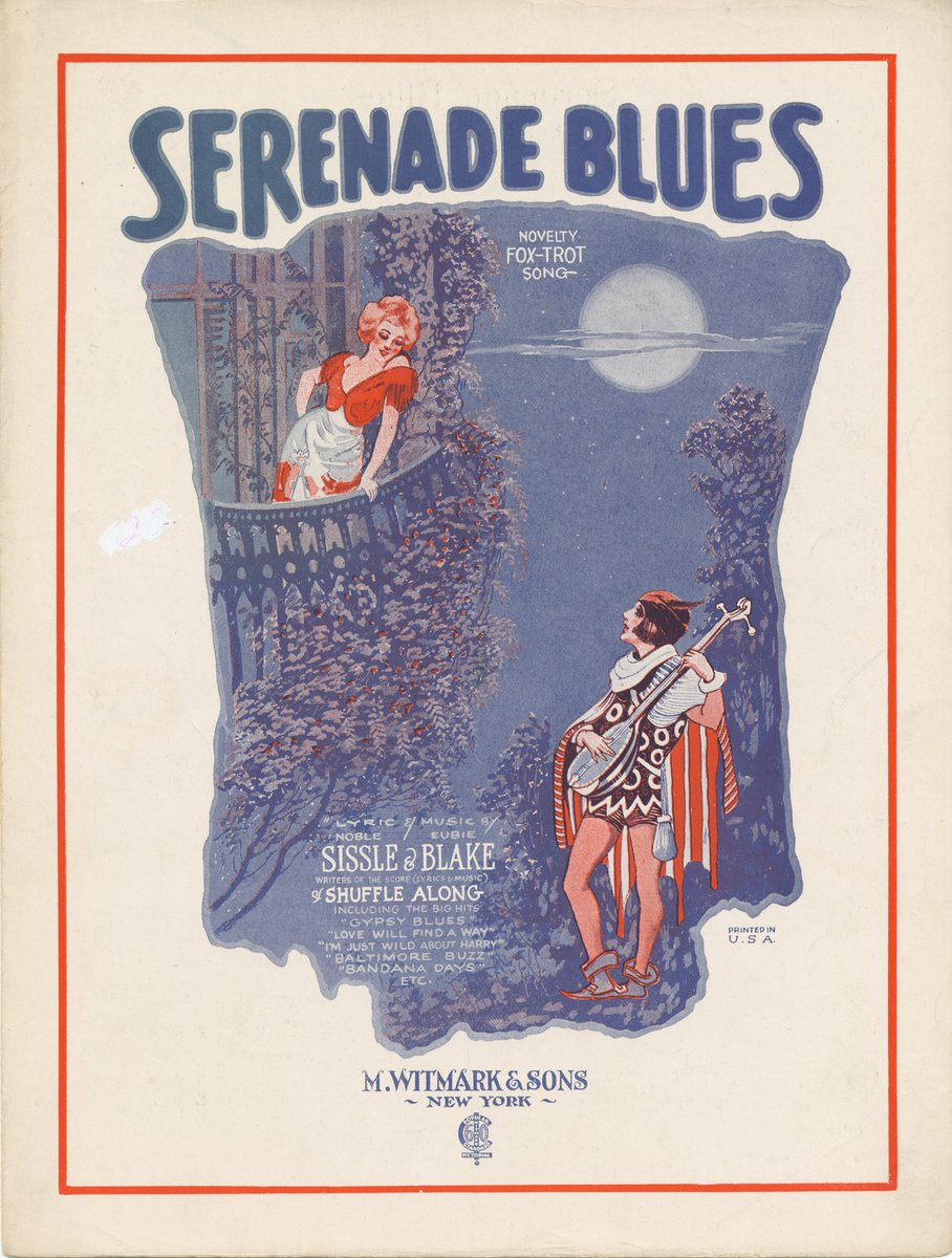 "Serenade Blues" (sheet music) page 1 of 5.